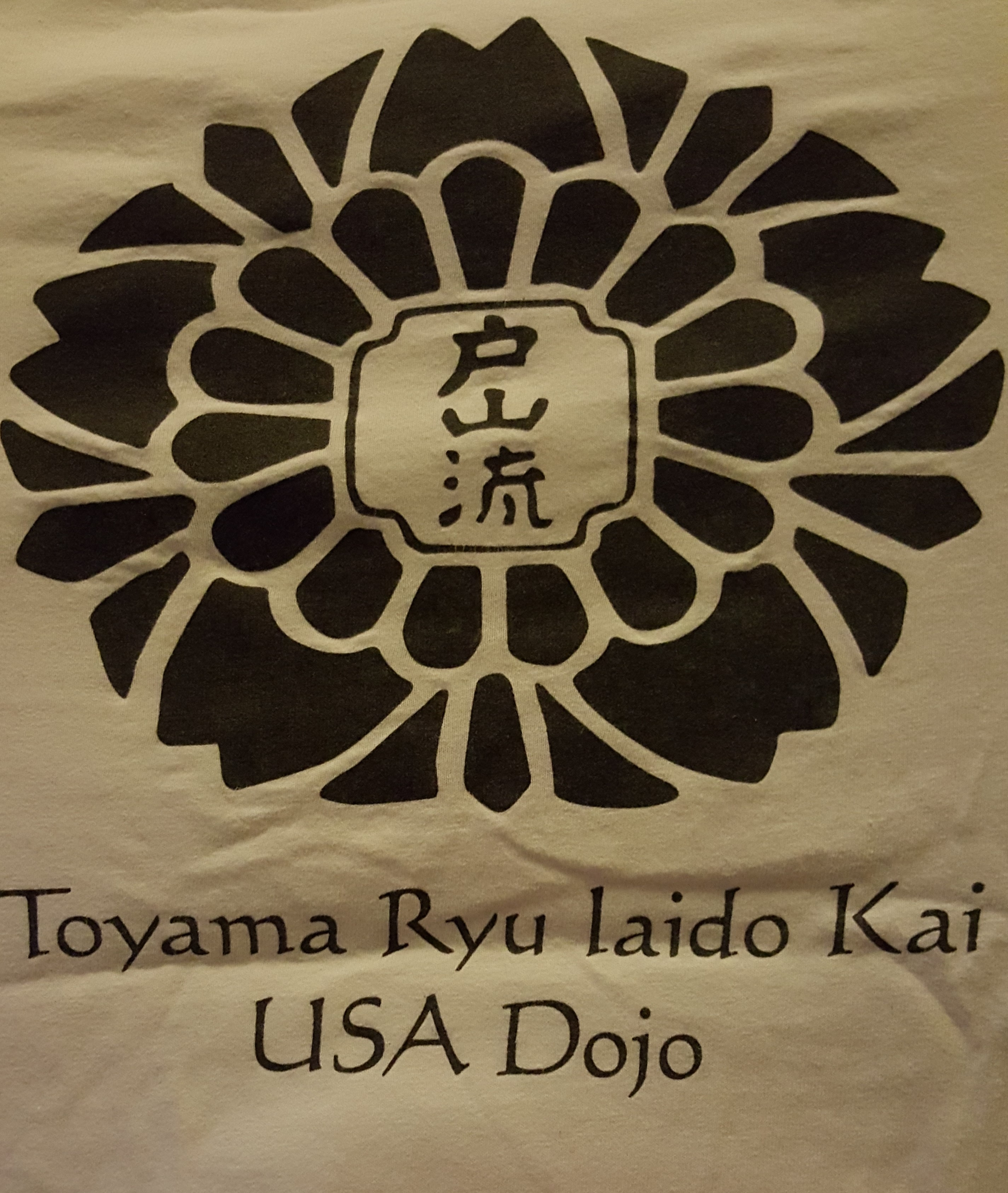 United States Dojo emblem